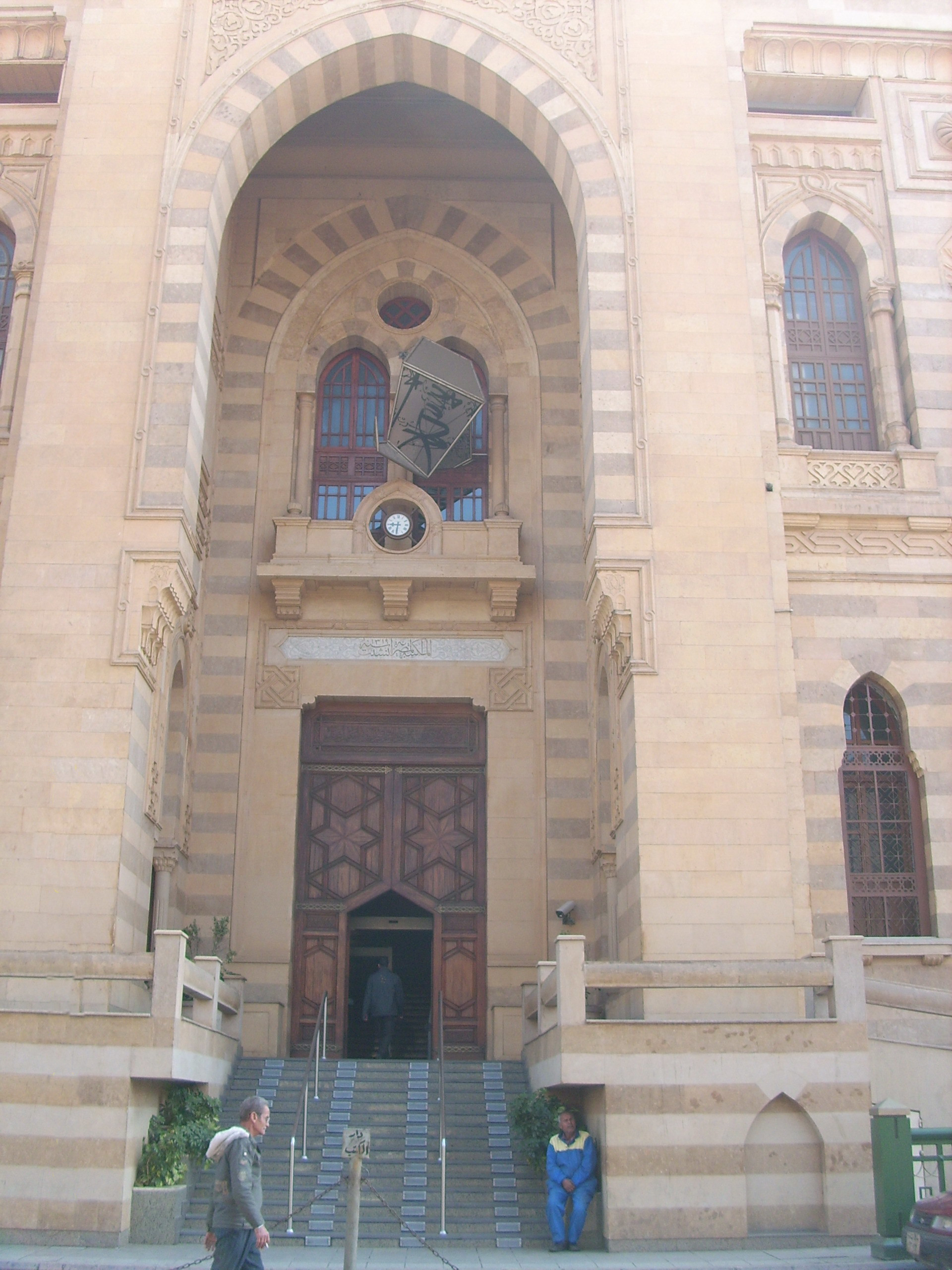 Dar Al-Kottob Al-Masryyia - Bab al-Khalq - Cairo